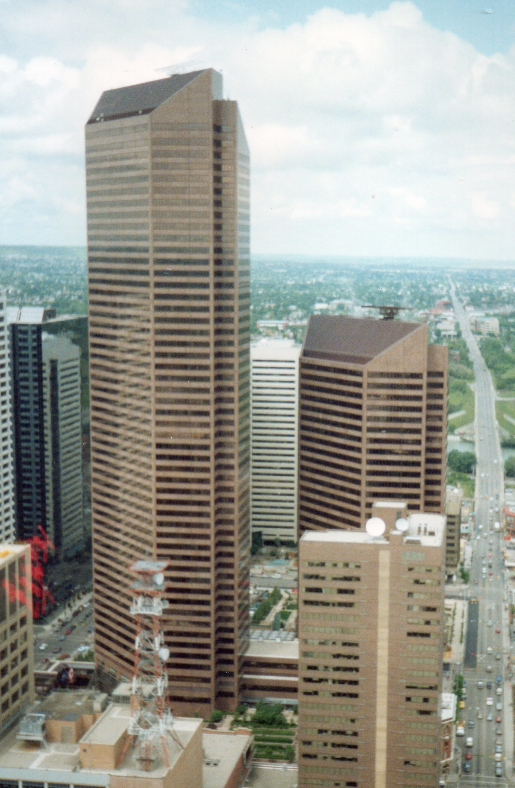 Photo of Calgary looking north from Calgary Tower, 1991